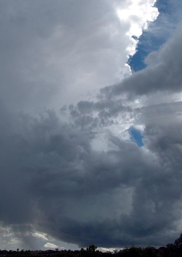 A thunderstorm over Wagga Wagga, New South Wales, Australia Photo taken by User:Bidgee Because this photograph concerns privacy since this was taken on a private property, only an approximate location is provided: Wagga Wagga, New South Wales, Australia